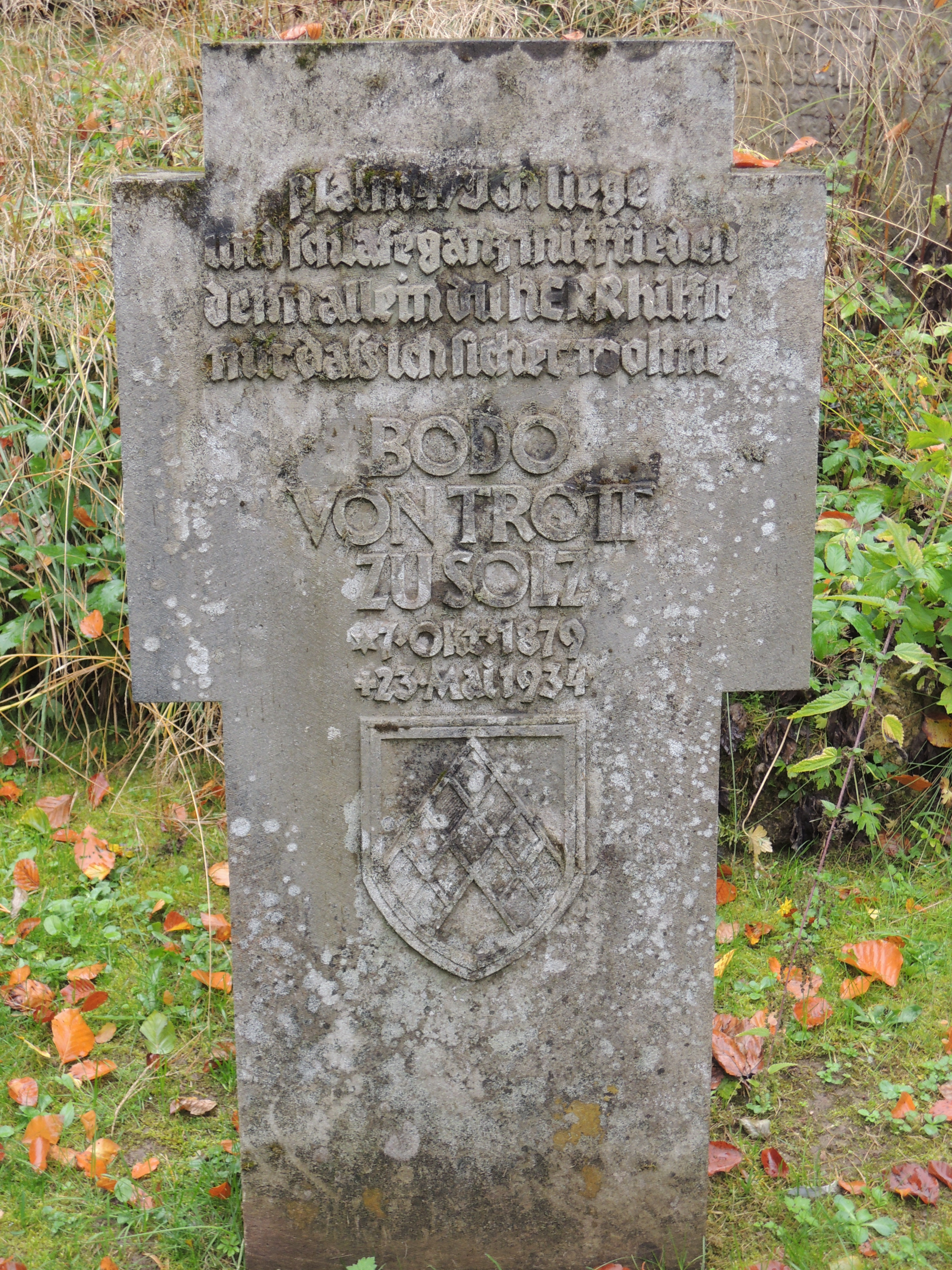 Gravestone of the von Trott family found at Trottenfriedhof near the town of Imshausen (Bebra)